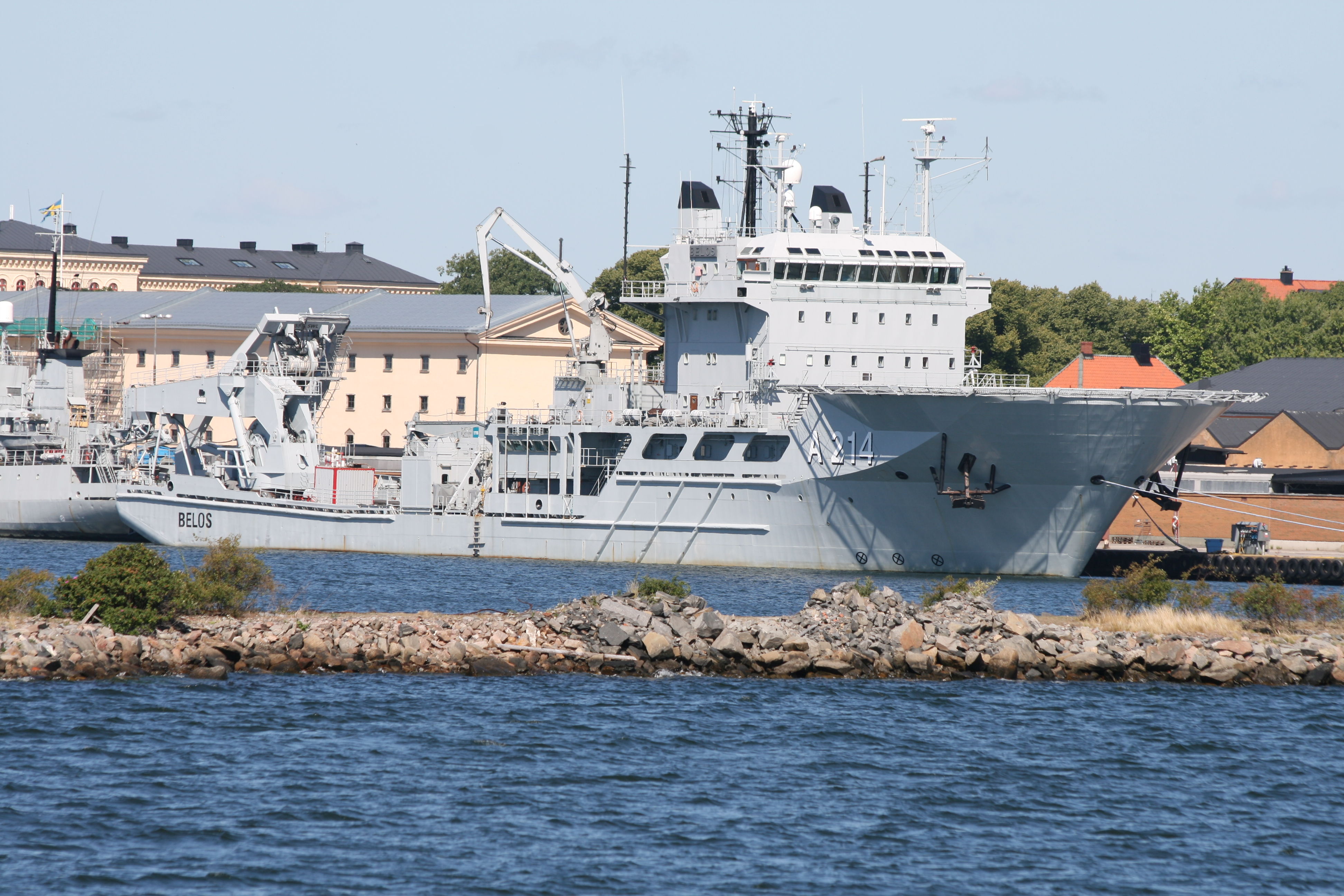 The naval ship HMS Belos (A214) of the Swedish Navy, docked at the naval port of Karlskrona, Sweden.